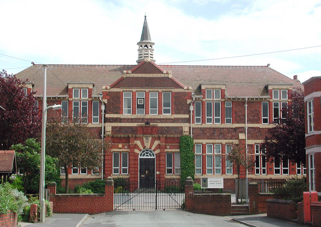 Whitchurch CE Junior School. Formerly Whitchurch Girls High School